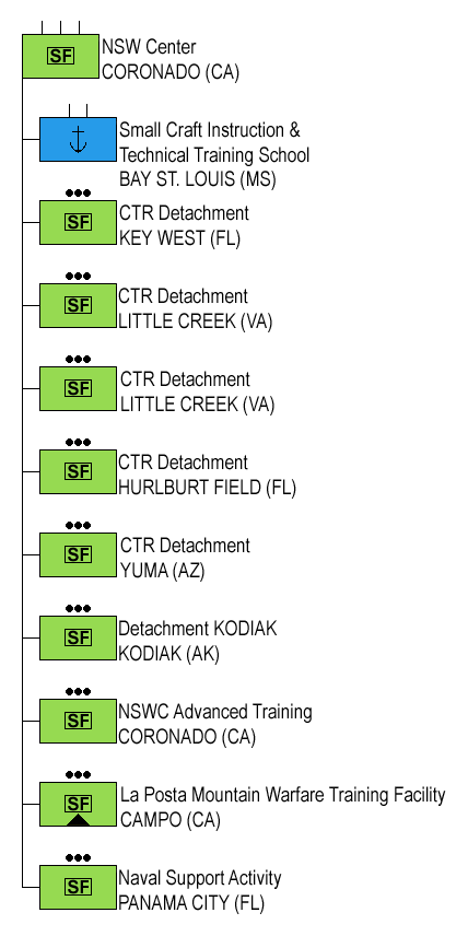 United States Naval Special Warfare Center Order of Battle chart